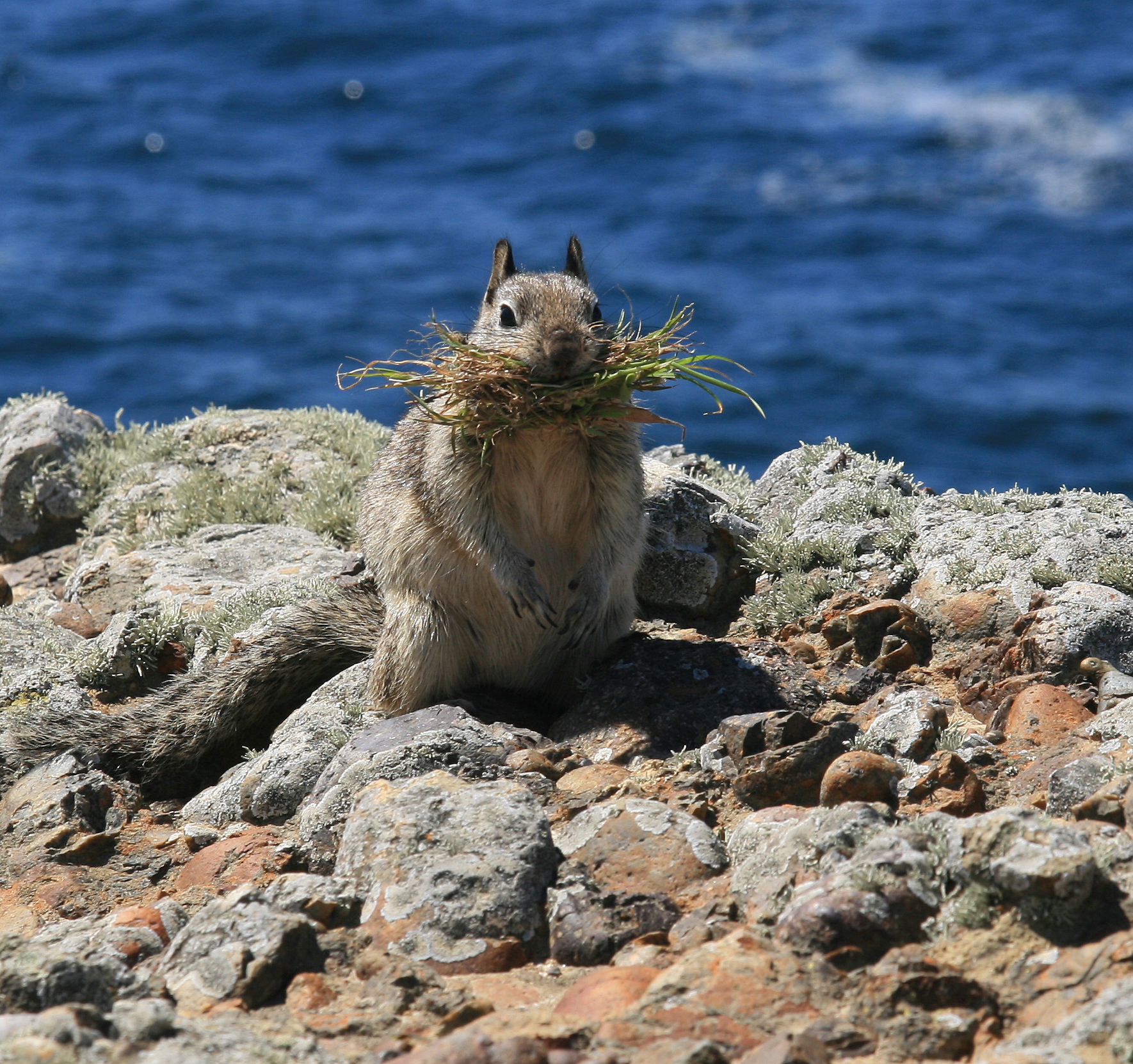 California ground squirrel,Spermophilus beecheyi, at Point Lobos, near Monterrey, California, USA.